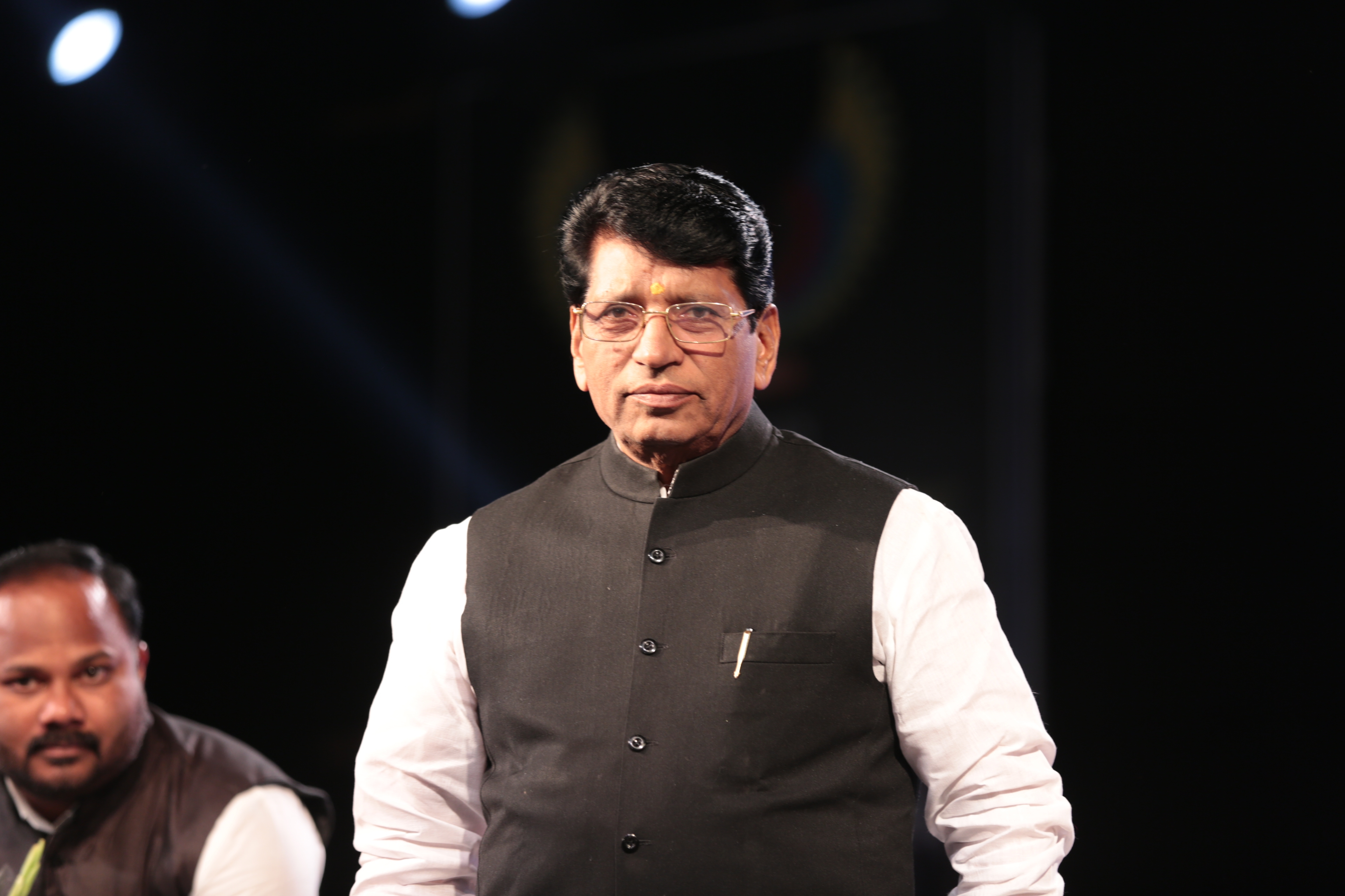 Babanrao Pachpute at ahemadnagar